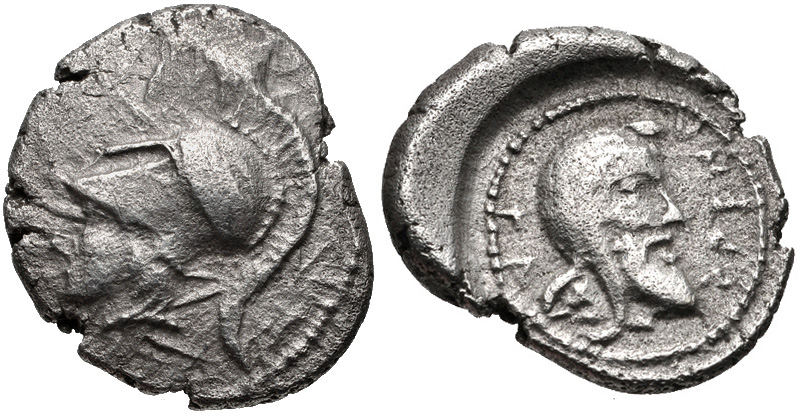 DYNASTS of LYCIA. Erbbina. Circa 430-20-400 BC